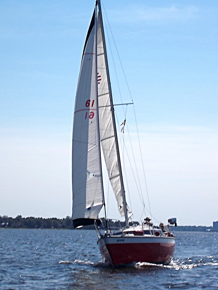 Prospect 900 sailboat Keewaydin on Lac Deschênes, part of the Ottawa River, Ottawa, Ontario, Canada